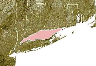 Long Island Sound is shown highlighted in pink between Connecticut and Long Island. Based on public domain satellite photo courtesy of NOAA. © 2004 Matthew Trump.